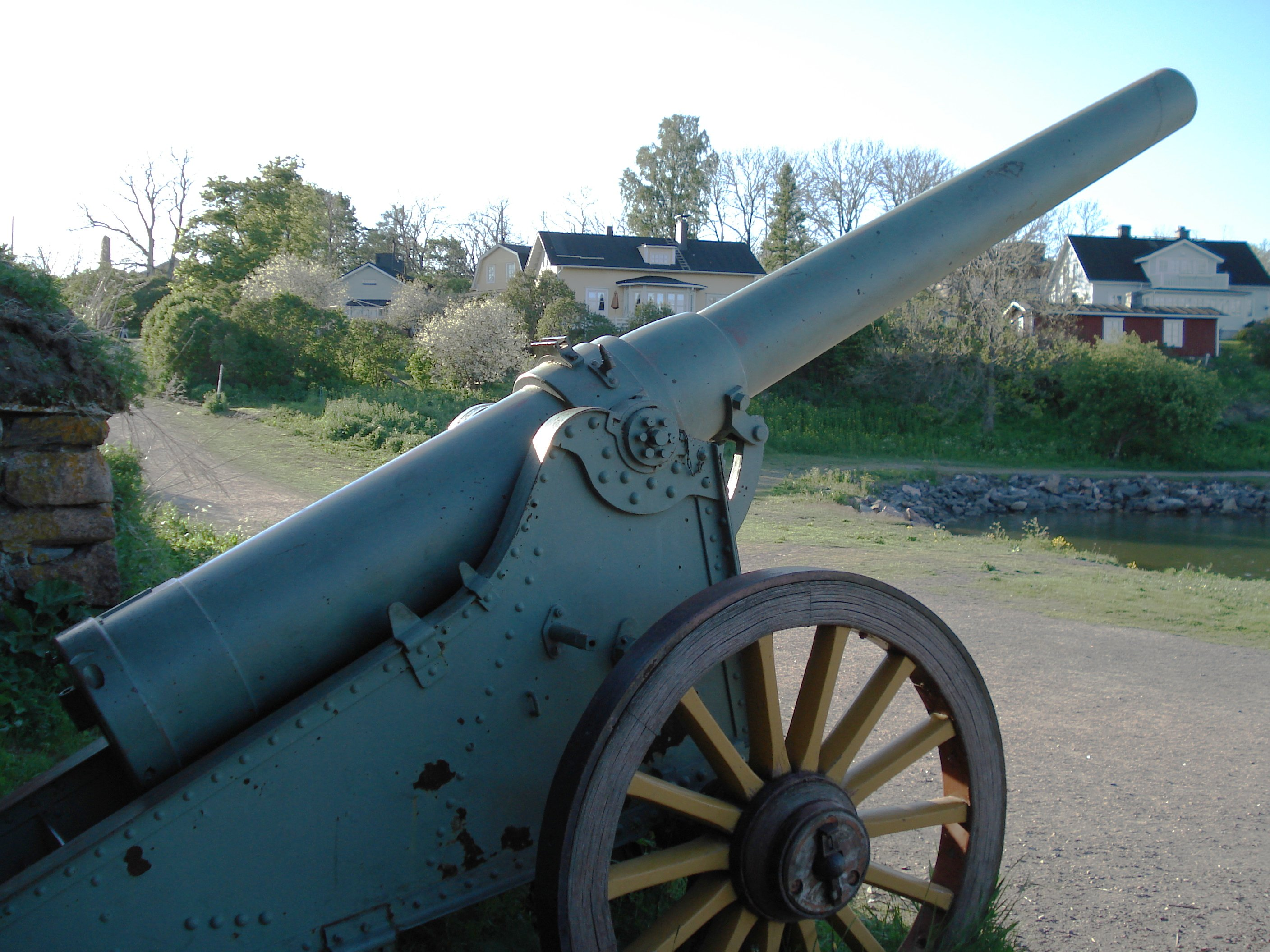 Russian 6 inch 200 pood siege gun model 1904. This particular gun was manufactured in Perm in 1910. displayed in front of Coastal Artillery Museum in Suomenlinna fortress, Helsinki. Photo taken on June 10, 2006. Source: Photo by me, User:Balcer.